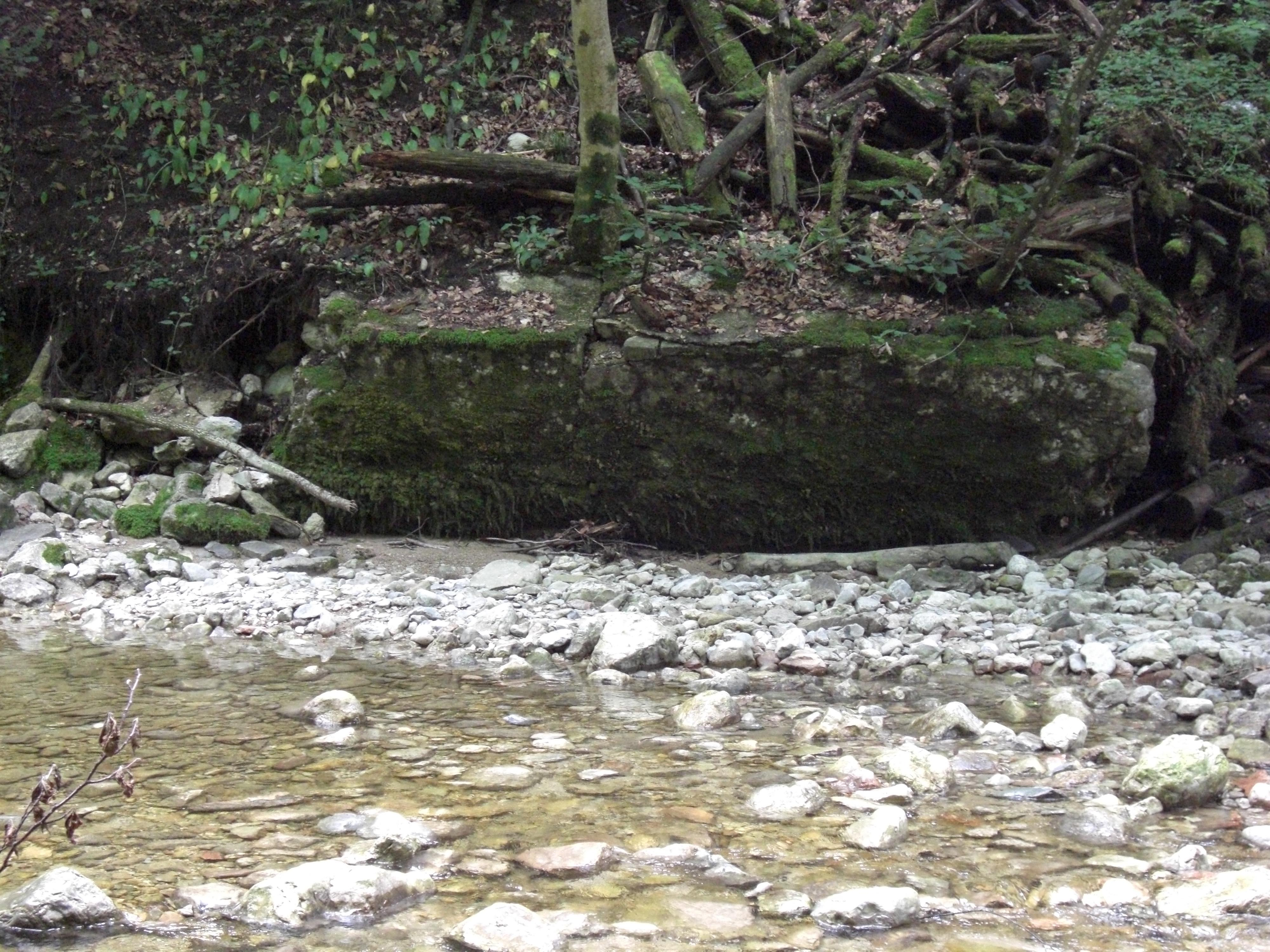 An old weir in the Klausbach